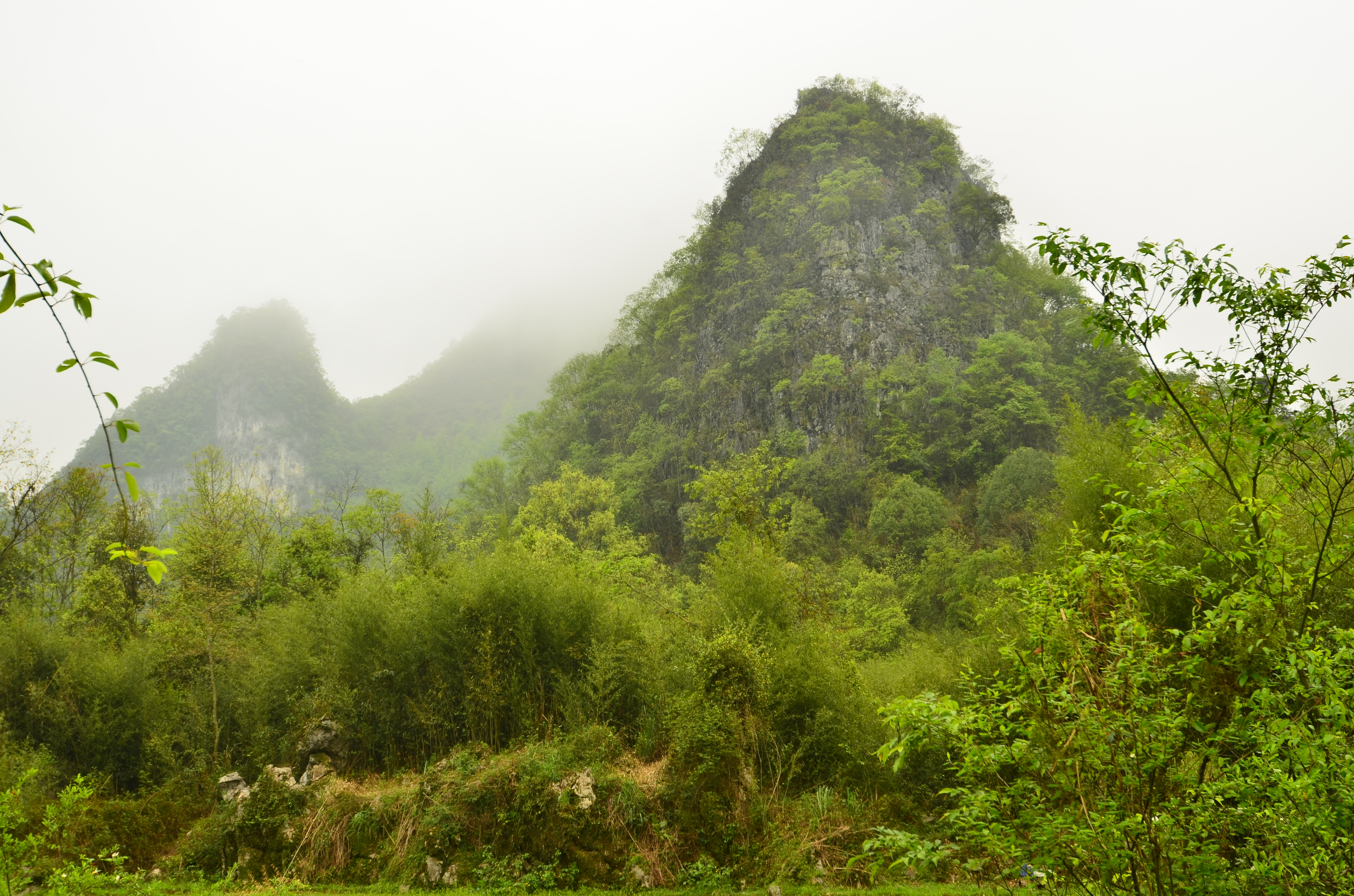 Xiaoqikong, a World Heritage Sites in Guizhou, China.